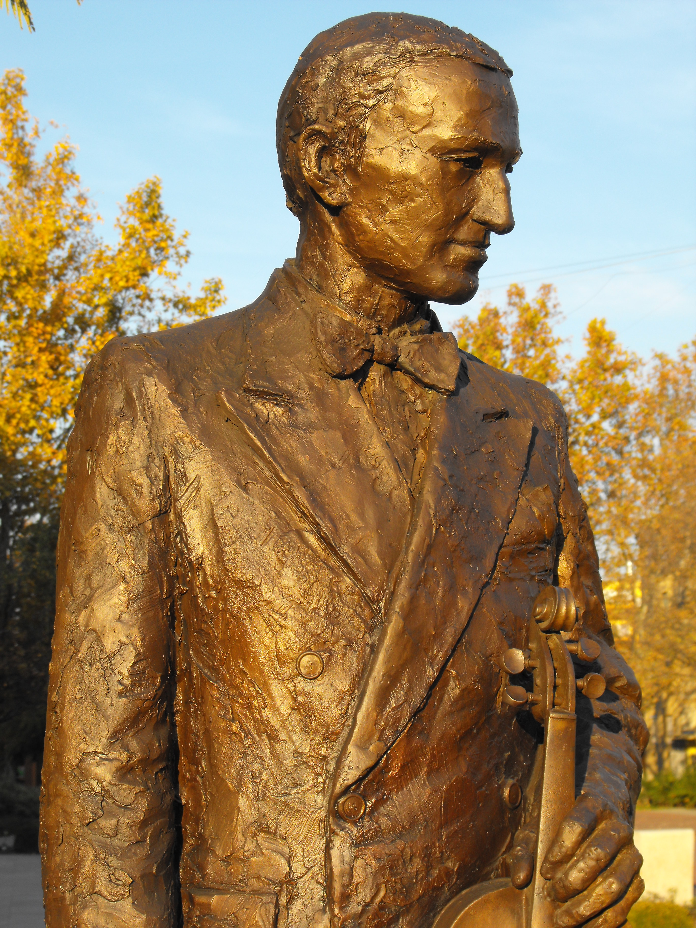 Mihály Fátyol, Hungarian-born bandleader and composer belonging to the Romani people, statue of Jenő Ferenc Kiss.